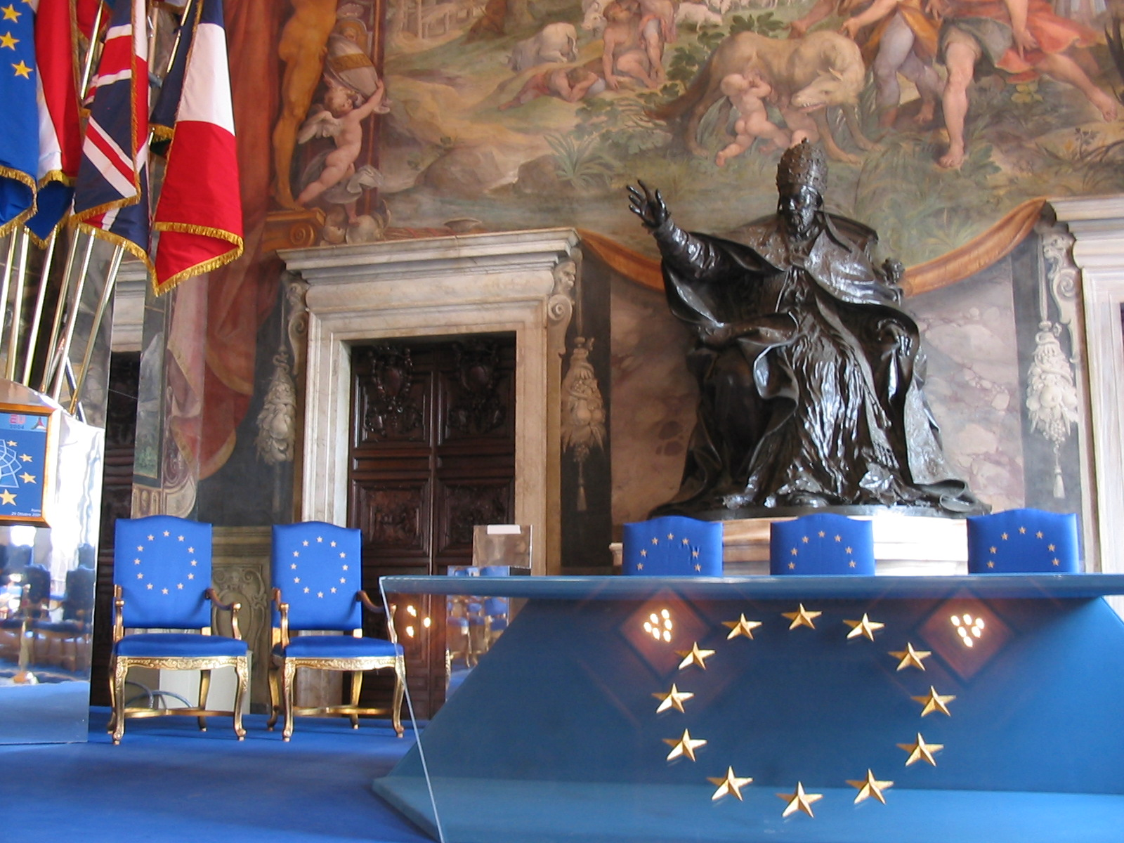 Hall in the Musei Capitolini (Capitoline Museums) in Rome, where the European Constitution was signed on 29 October 2004 and where the European Economic Community had formally been founded in 1957 with the Treaty of Rome (close-up of statue and table)